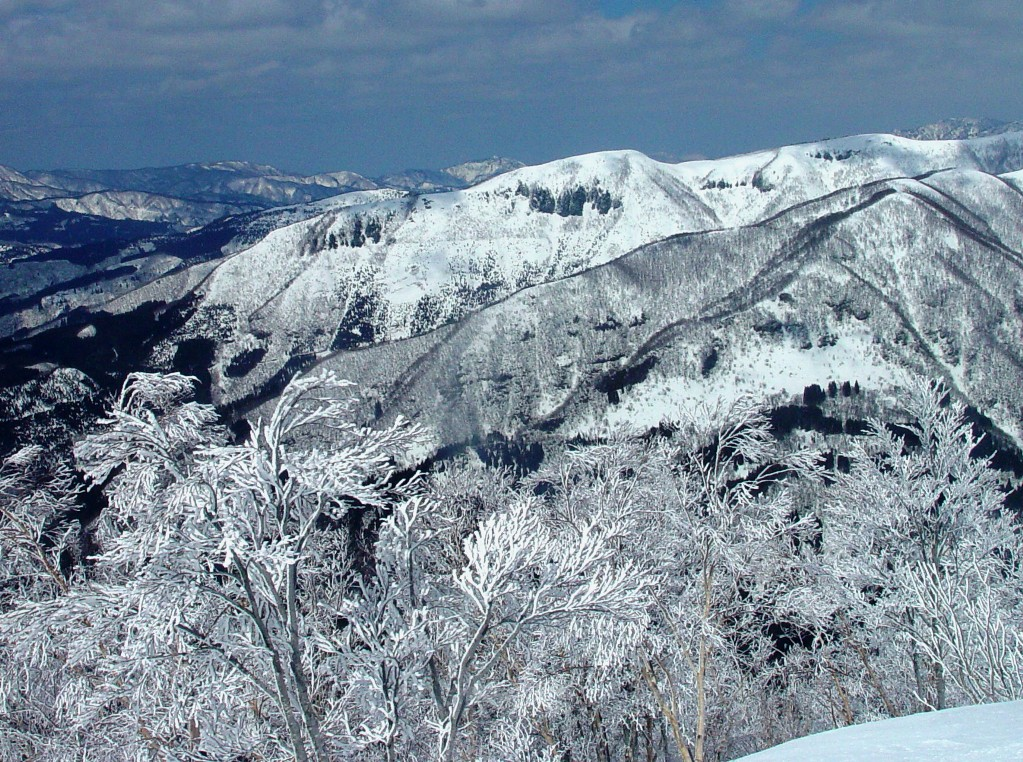 Mount Toritate seen from Mount Hōonji, in Ryōhaku Mountains, Japan.